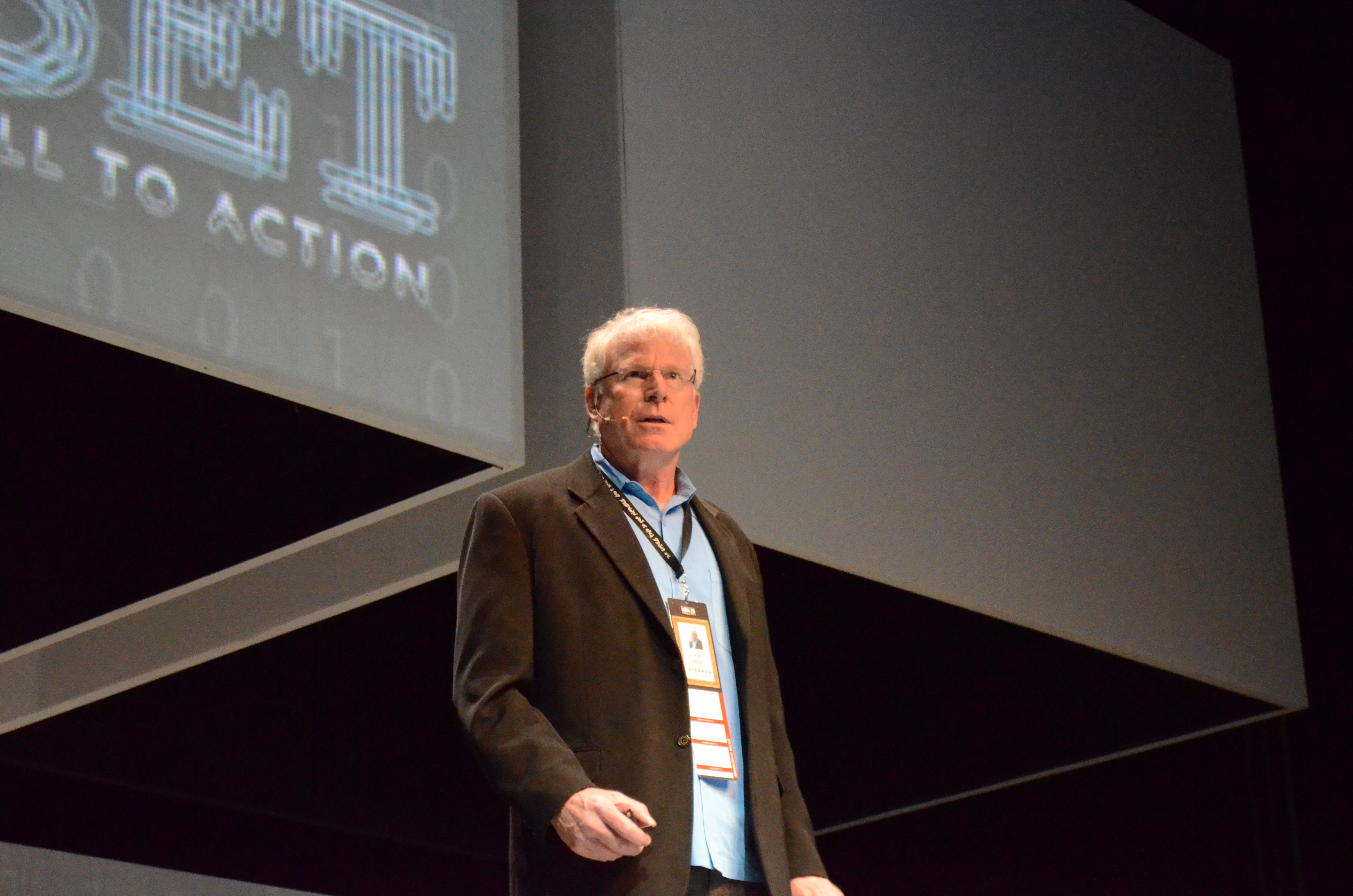 David Buss in La Ciudad de las Ideas, 2011.